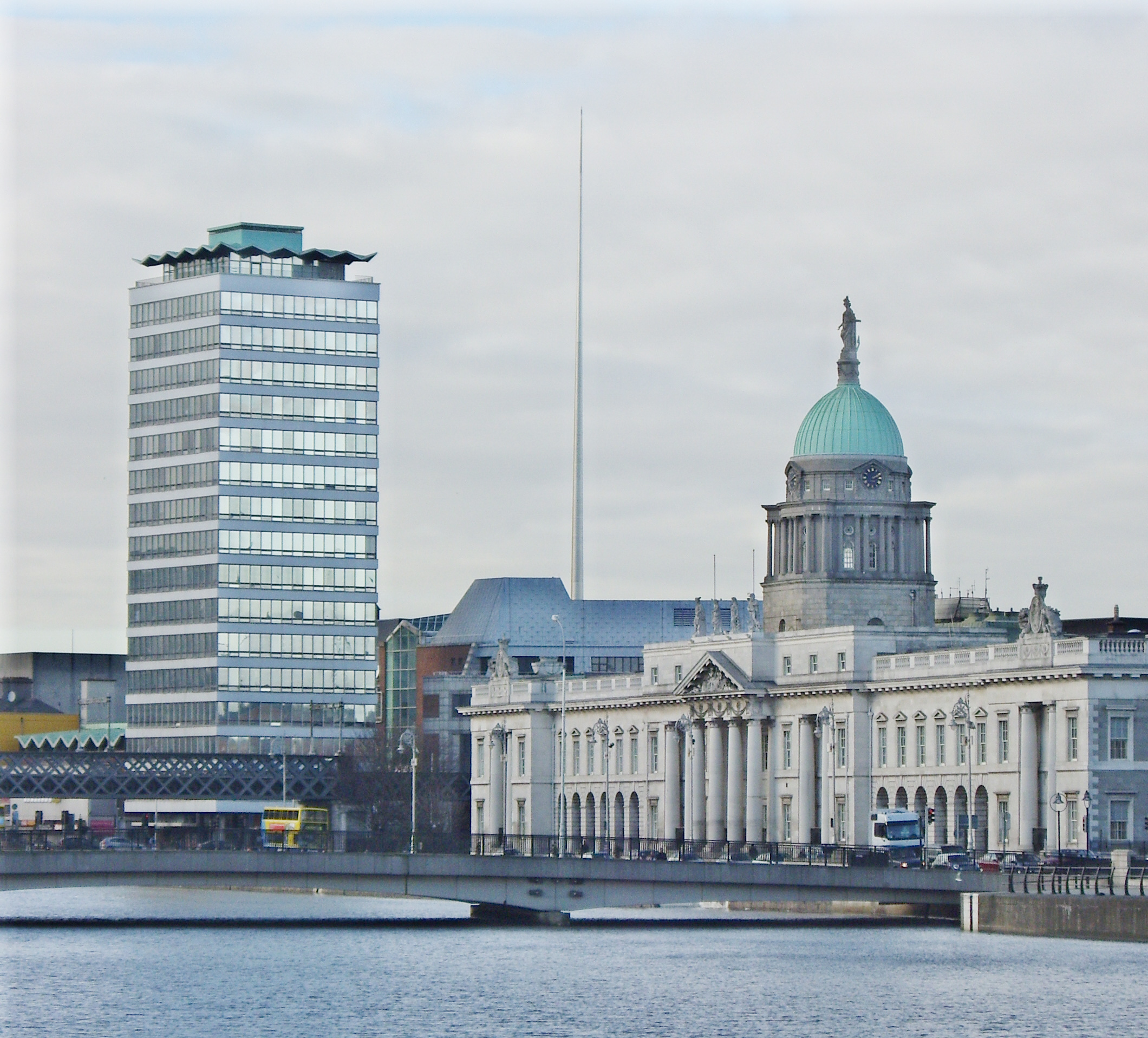 Liberty Hall, Spire of Dublin, and Custom House, taken from George's Quay. Brightend version of File:Liberty Hall Spire and Custom House.jpg by Jnestorius